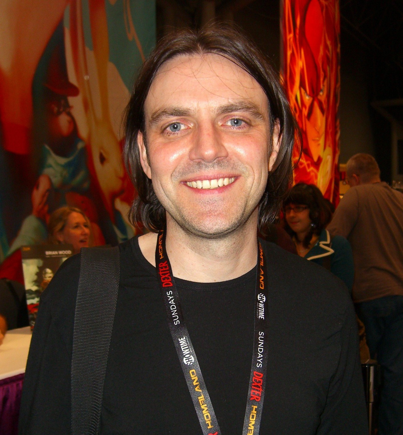 Comic book artist Frank Quitely, photographed October 14, 2011 at the New York Comic Convention. This photo was created by Luigi Novi. It is not in the public domain, and use of this file outside of the licensing terms is a copyright violation.